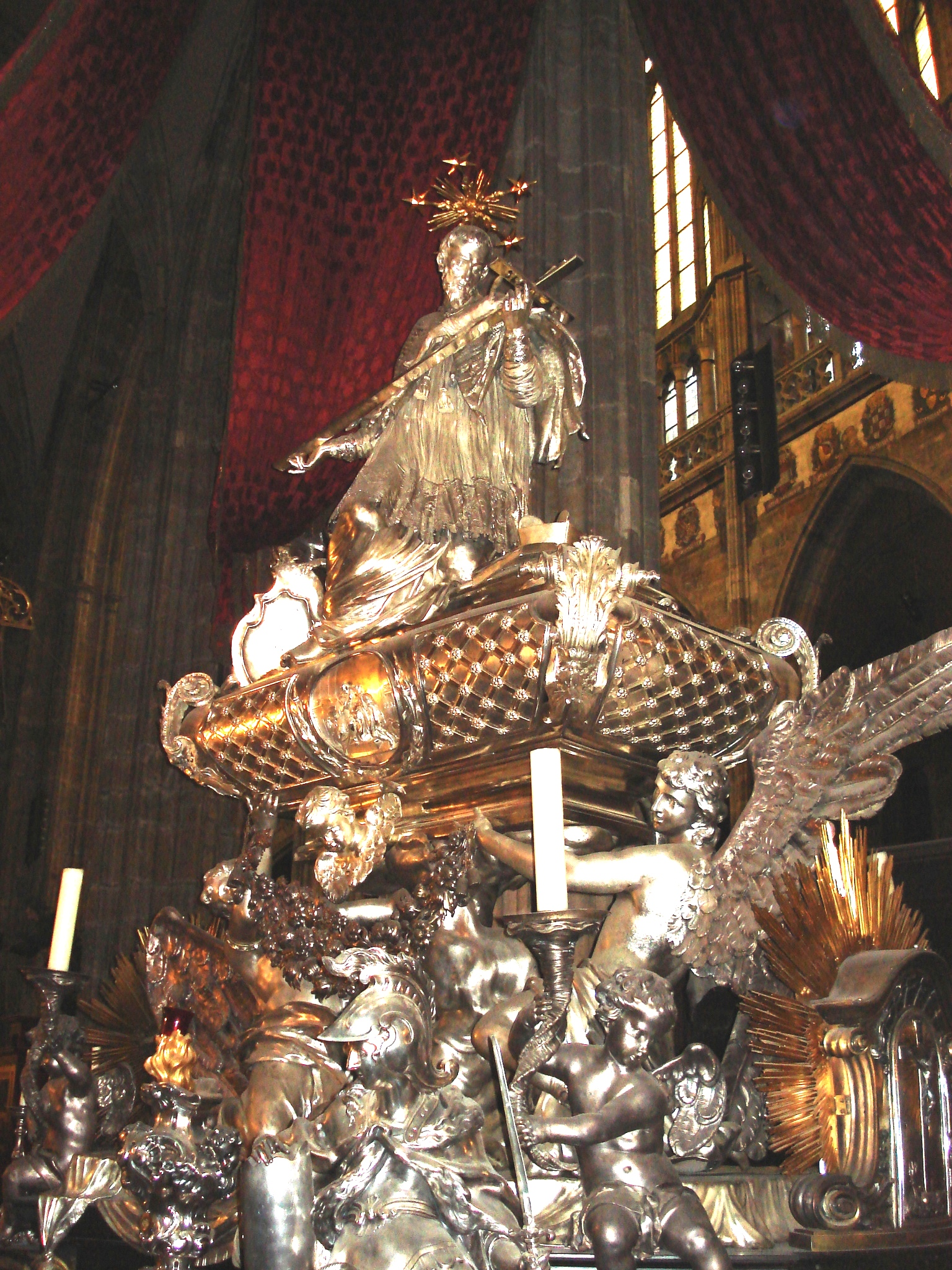 Tomb of Saint John Nepomucene executed in 1736 by Johann Josef Würth after Antonio Corradini and Josef Emanuel Fischer von Erlach, , cathedral St Vitus, Prague Castle.